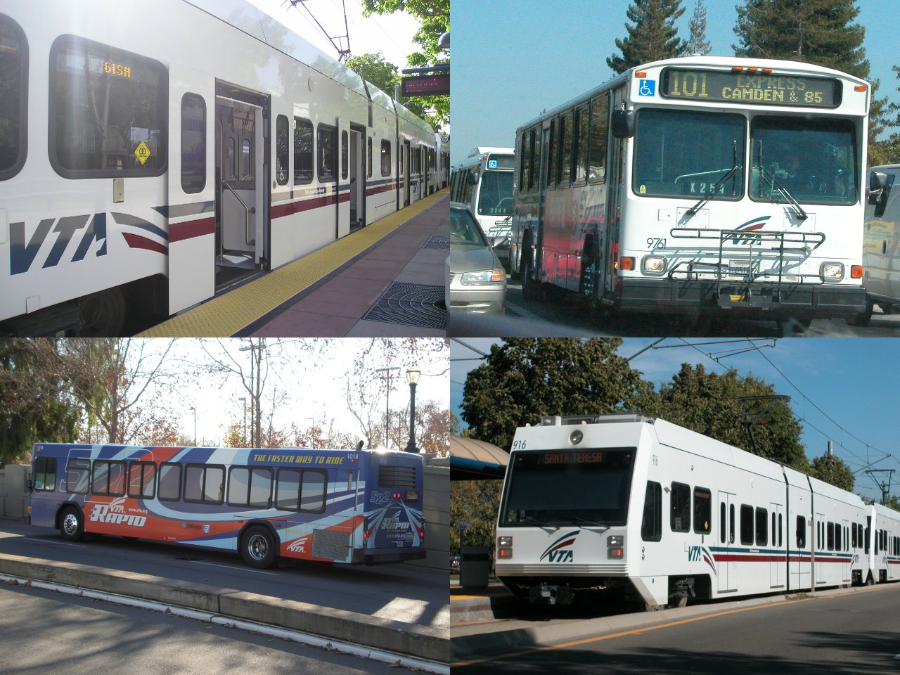 A montage of: VTA Light rail, Mountain View — Gish (Mountain View — Winchester line) front of VTA Gillig Phantom bus. A Santa Clara Valley Transportation Authority Rapid bus in San Jose, California. This Picture is front/back of VTA Light Rail Transit. Taken on August 11th, 2005 at Tasman Station, originally contributed by User:Snty-tact.